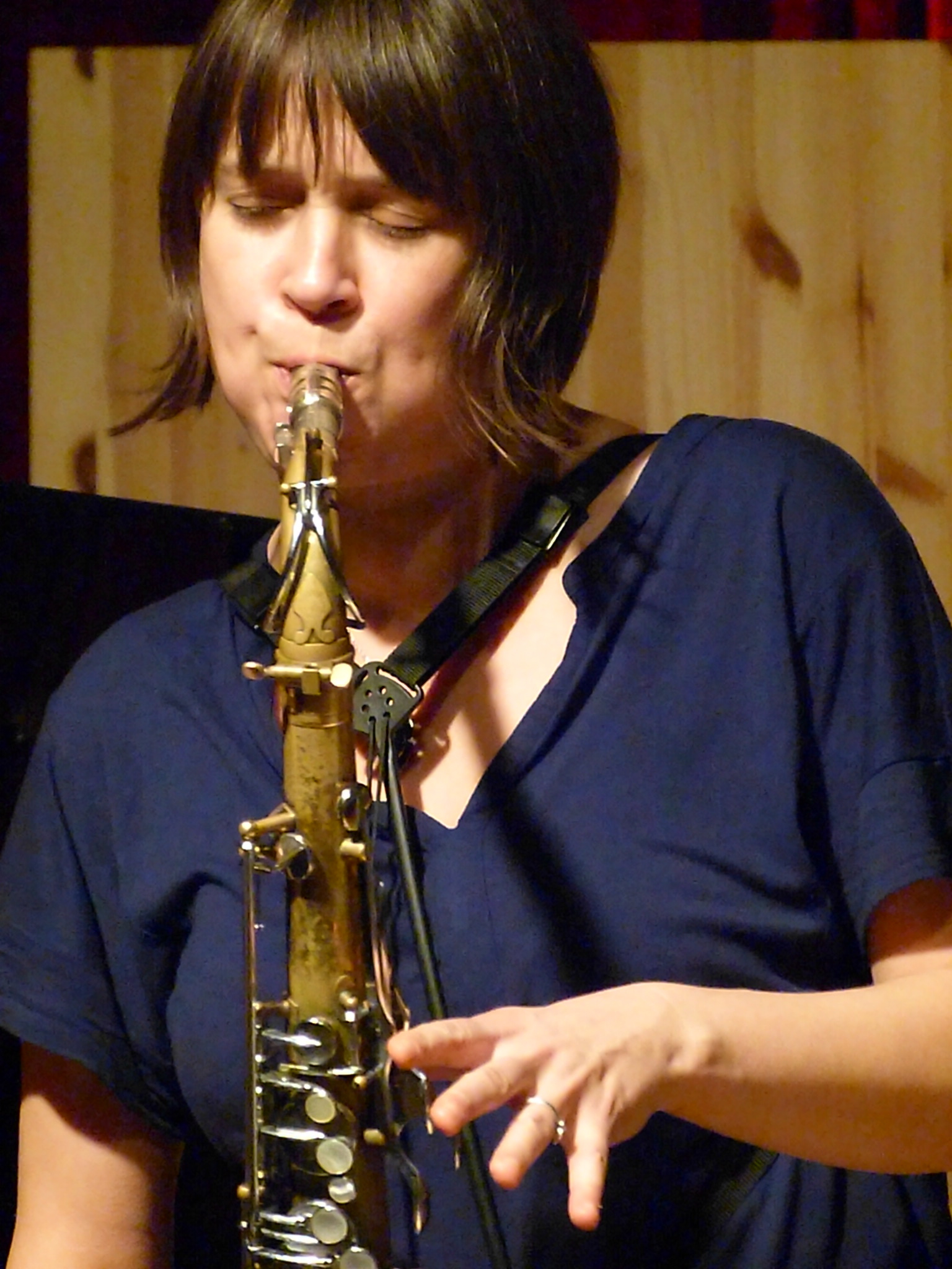 Ingrid Laubrock in concert at Loft (Cologne), Germany, December 8th, 2012